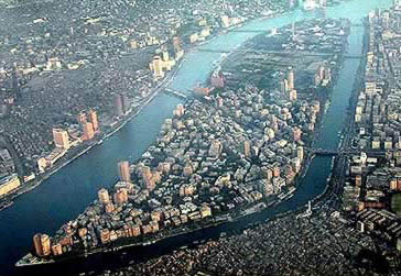 An arial photo of Zamalek